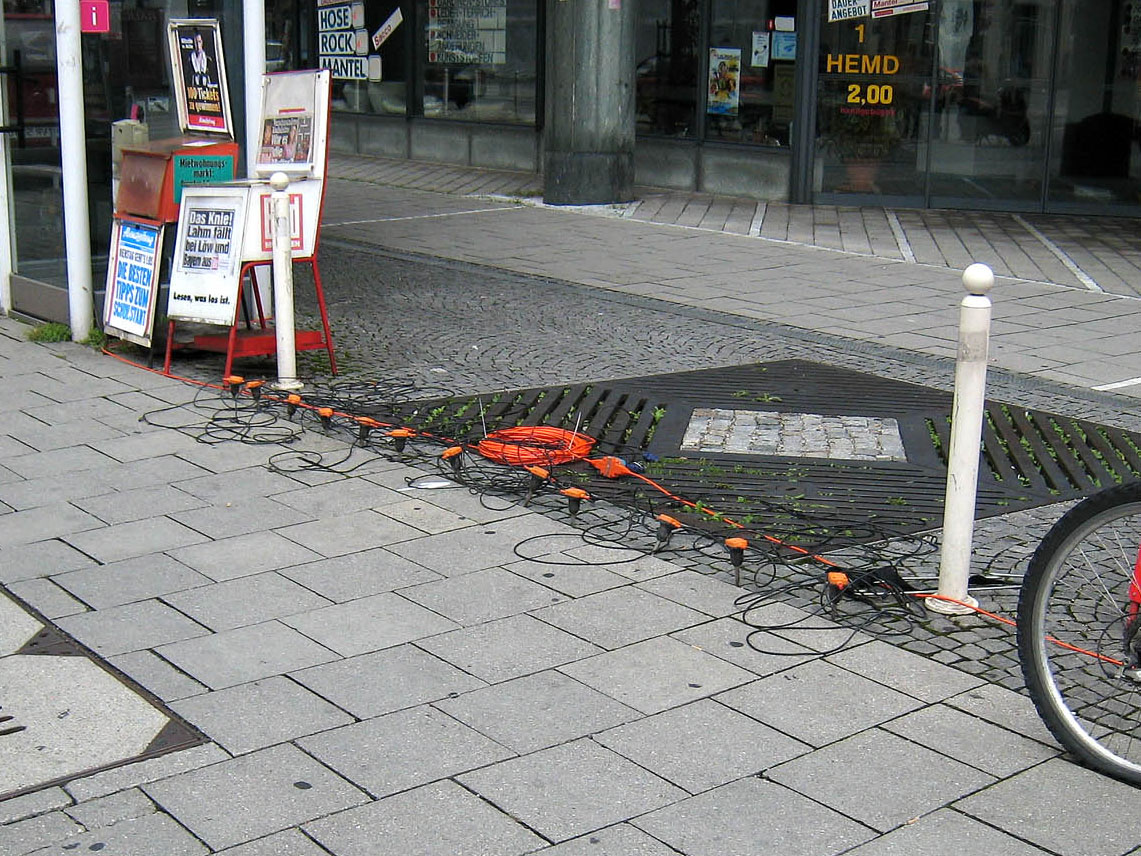 Geophones